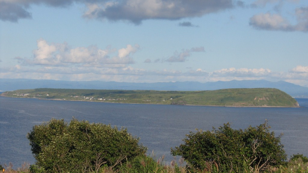 Yagishiri Island seen from west in Haboro, Tomamae District, Hokkaido, Japan.